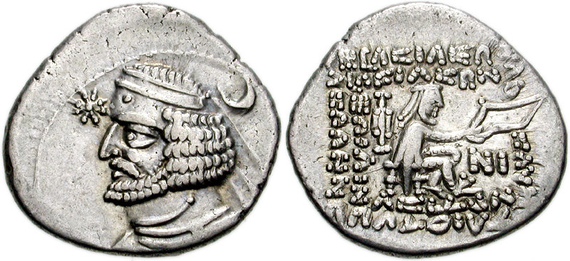 Coin of OrodesII.